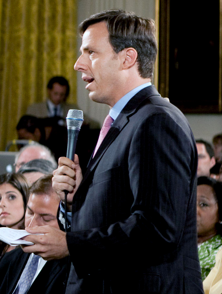 ABC correspondent Jake Tapper during a prime time news conference in the East Room of the White House on July 22, 2009.